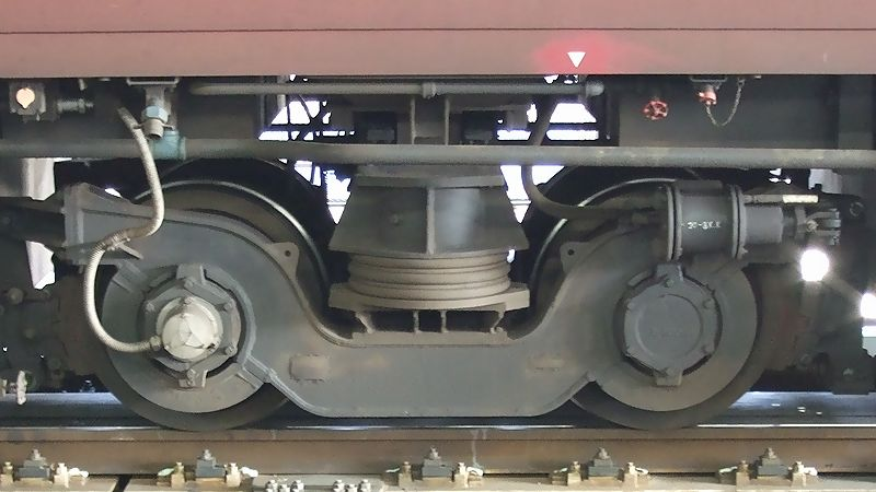 Japanese National Railways truck typeTR103D. JR Kyushu Hakata Station, Hakata-ku, Fukuoka City, Fukuoka, Japan.